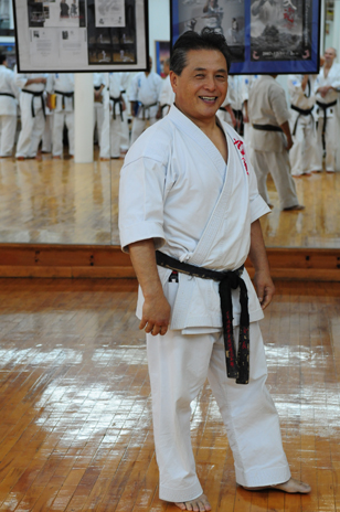 Grandmaster Tadashi Nakamura at his headquarters dojo in NYC, USA